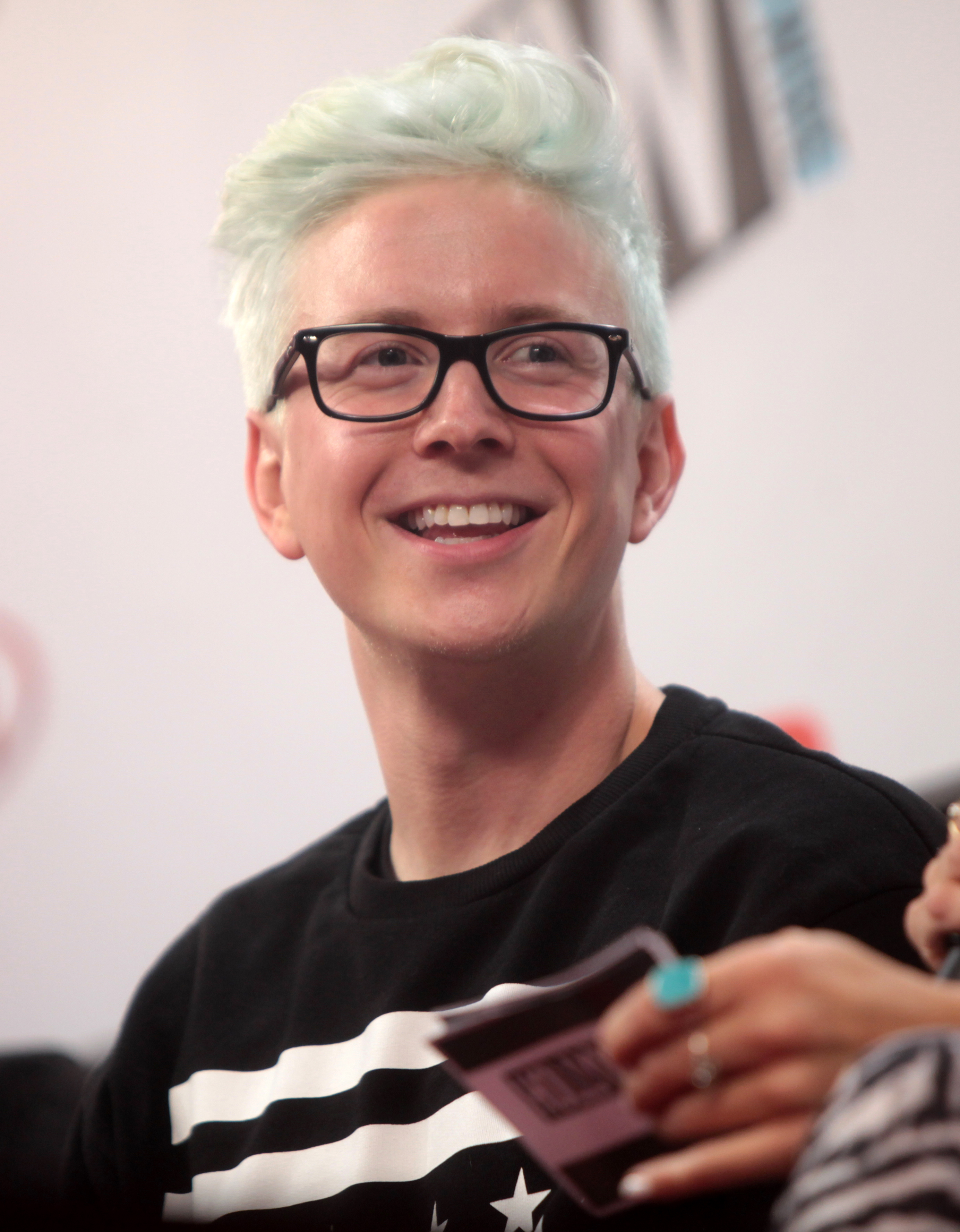 Tyler Oakley speaking at the 2014 VidCon on June 28, 2014.